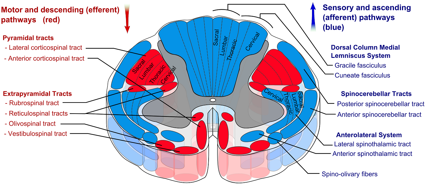 Tracts of the spinal cord.